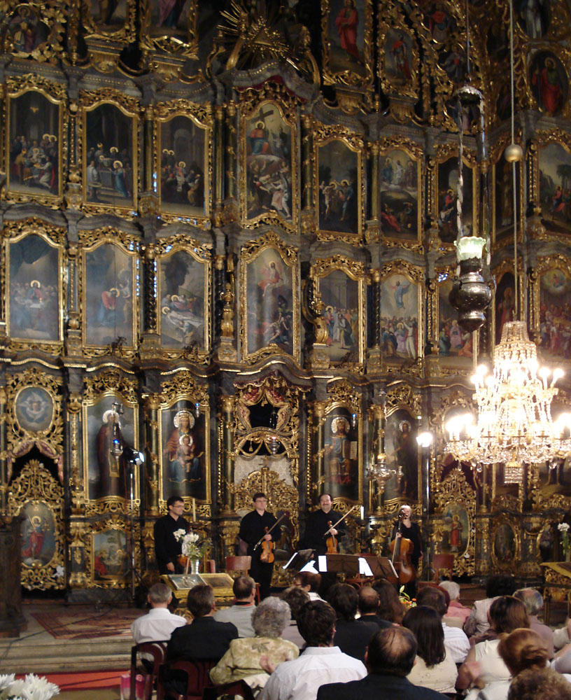 Anima Quartet in the Greek Orthodox Church, Miskolc, Hungary. International Opera Festival Miskolc, 2009